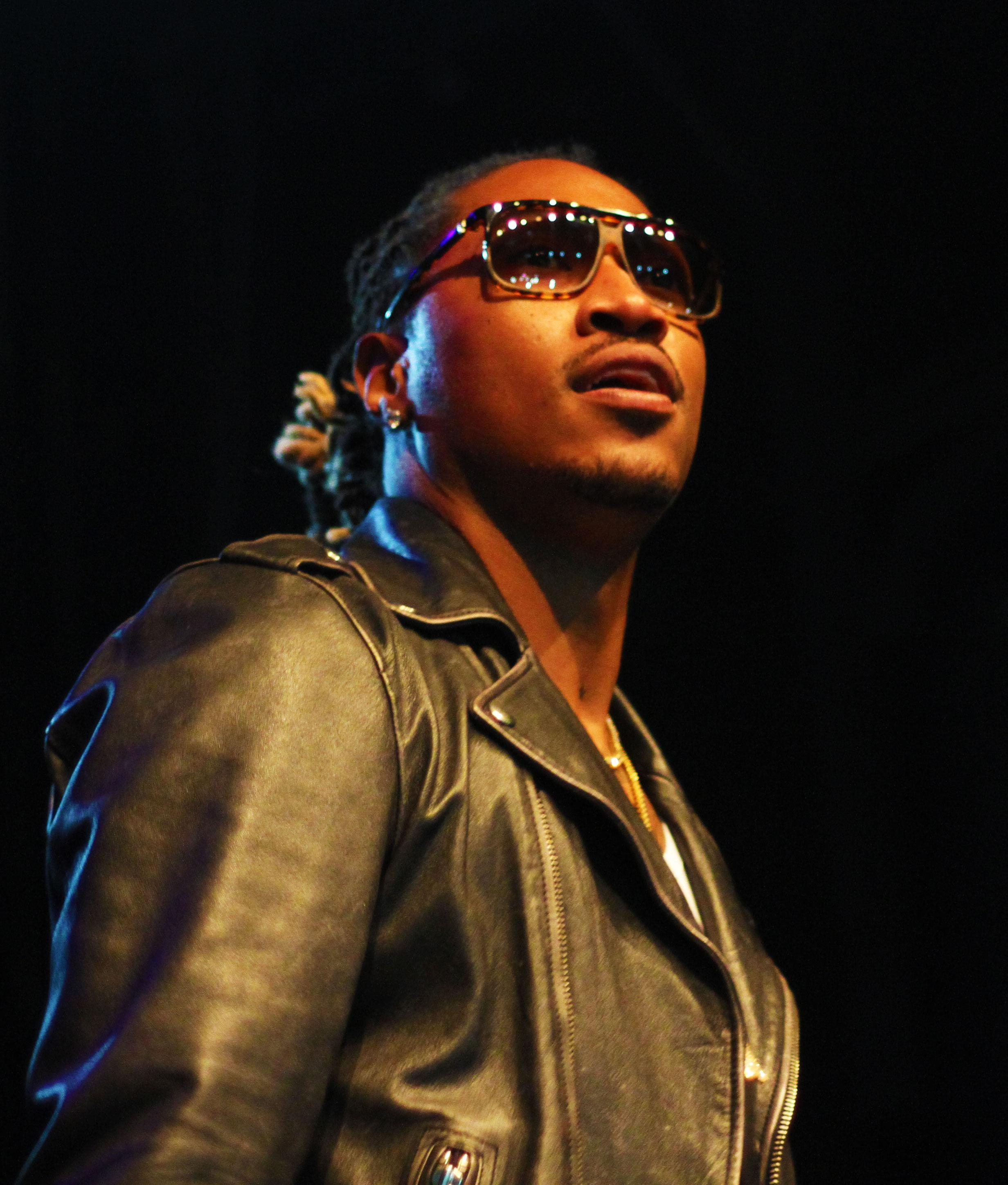 Future on the Honest Tour at Sound Academy in Toronto on July 11, 2014.